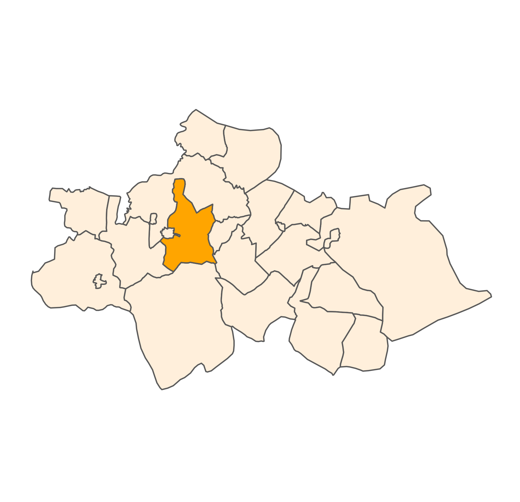 Commune (Orange), Sefrou Province (Antique White)